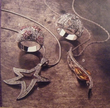 In 2003, Dr. Terenzi debuted two original collections she designed of stellar jewelries for "ShopNBC" called "GemAllure" in white gold with diamonds and blue zaffire and for "QVC Japan" called "Stellare" in silver, in which each jewels resemblew shapes, color and symmetries of the celestial objects she observed in the night sky.